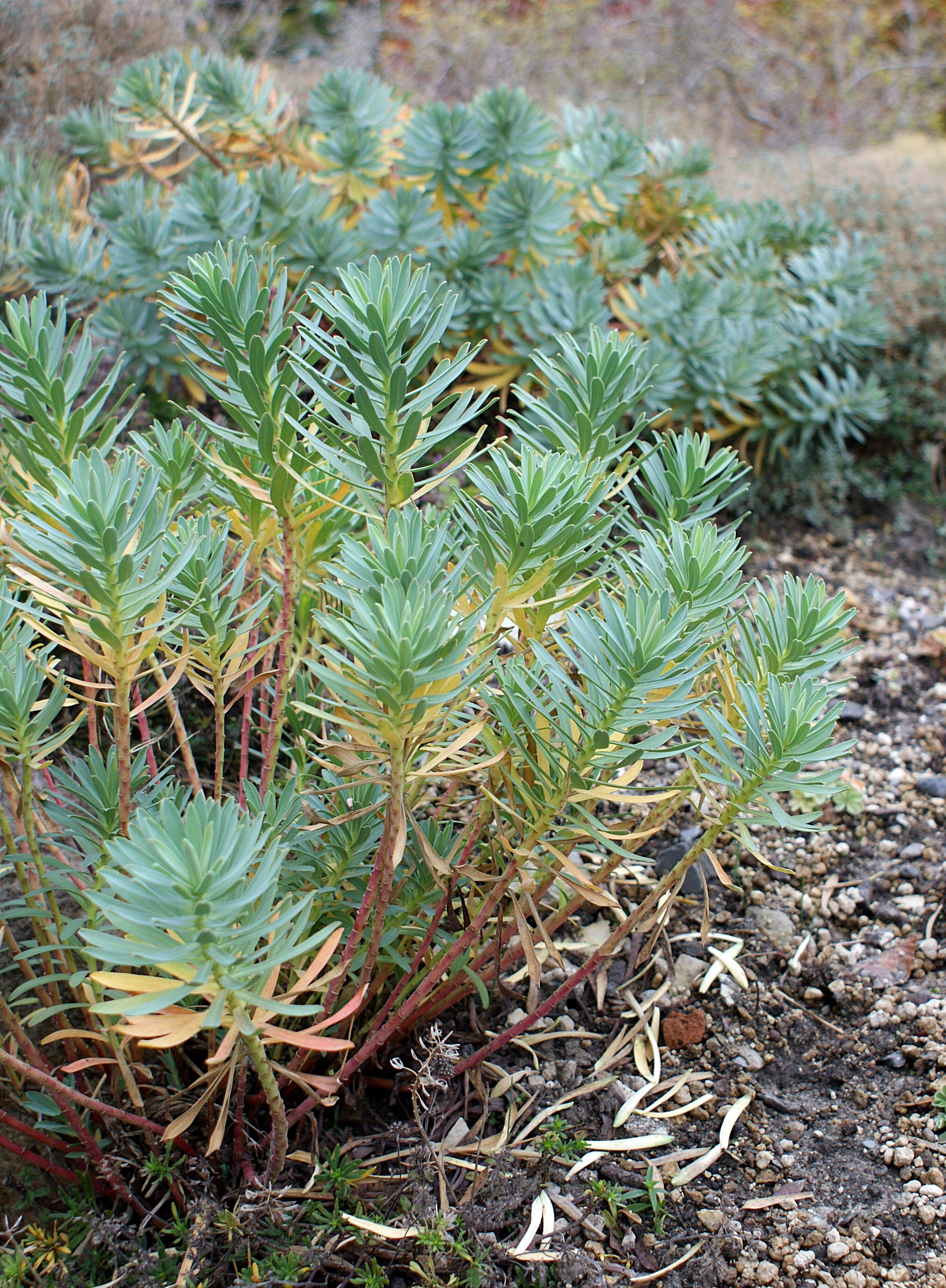 Euphorbia nicaeensis